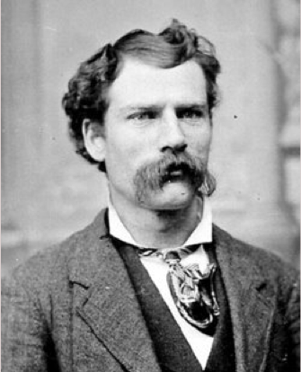 John Wallace "Captain Jack" Crawford Other information No.